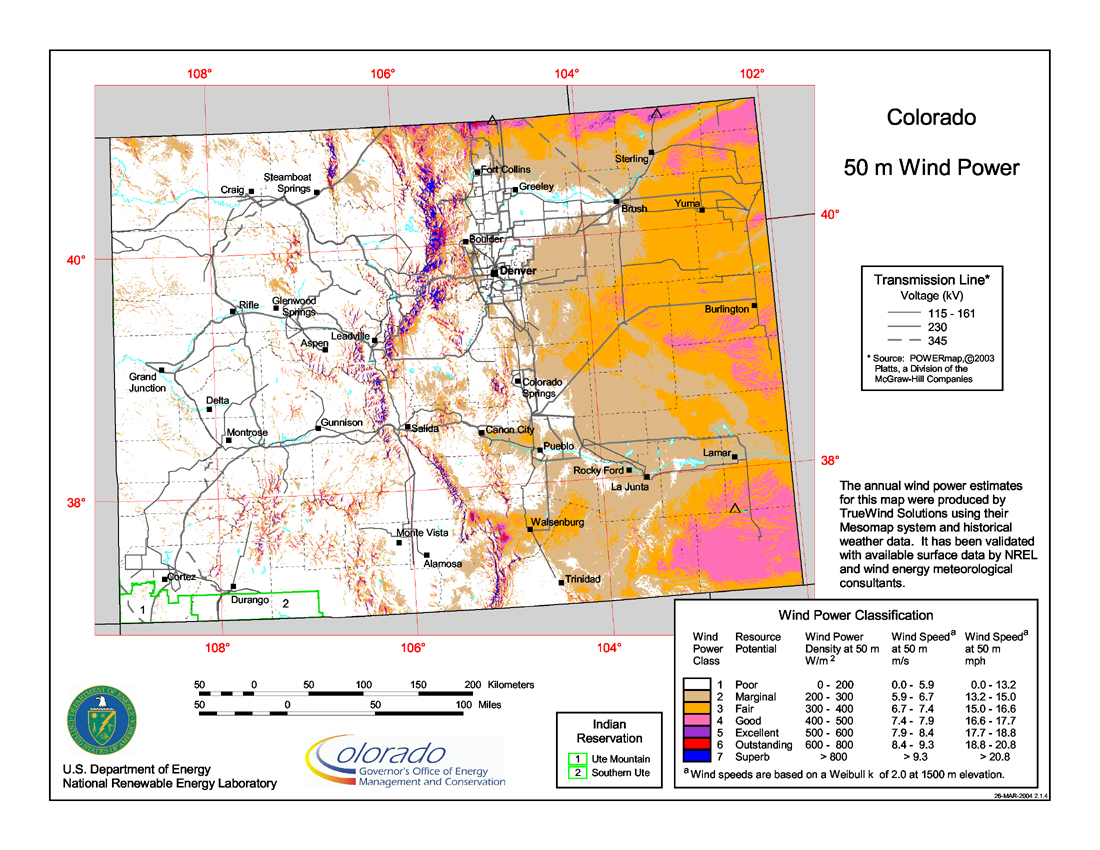 Average annual wind power distribution for Colorado, 50m height above ground, also showing location of existing electrical transmission lines